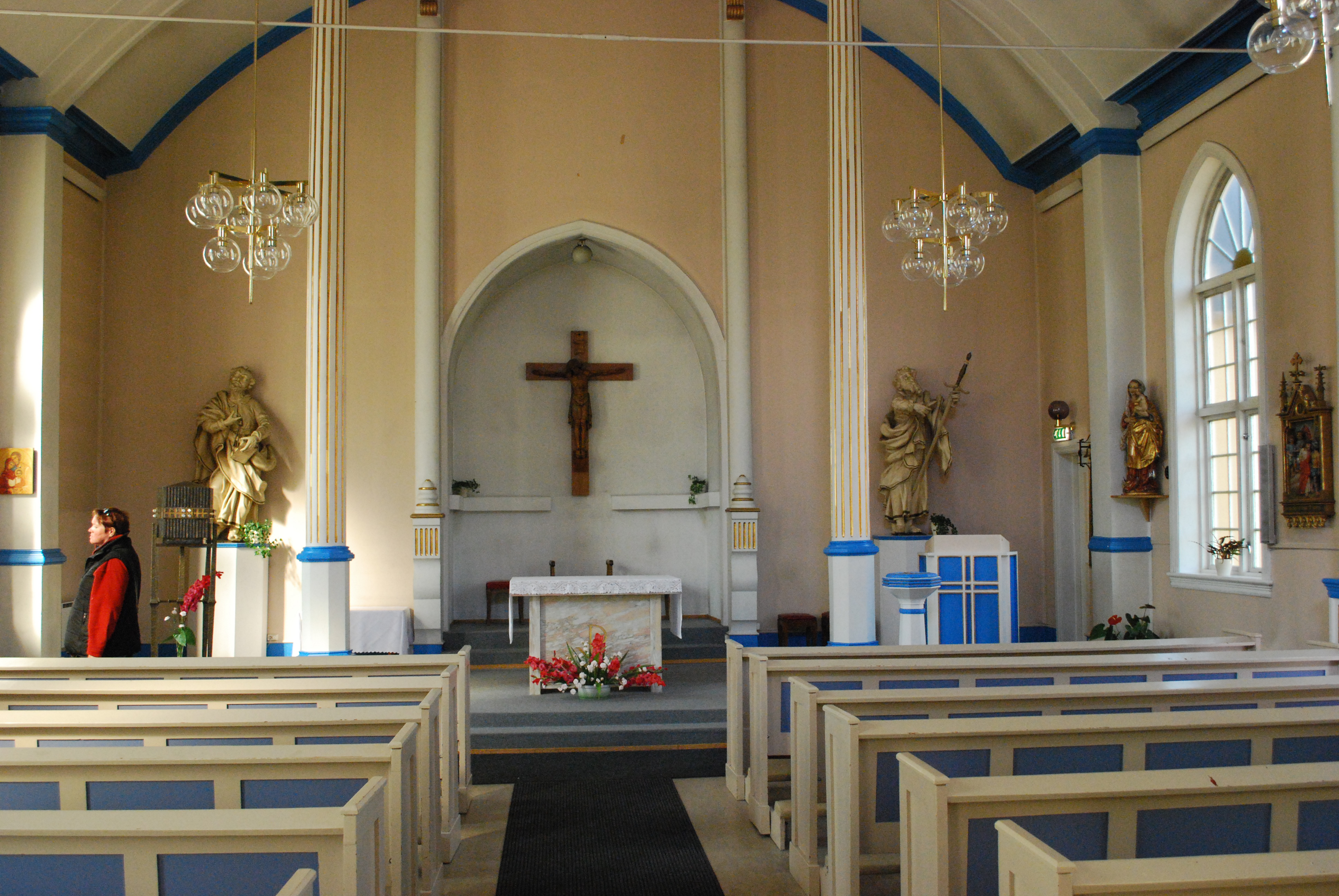 Interior of the Our Lady Church of Tromsø, Norway.